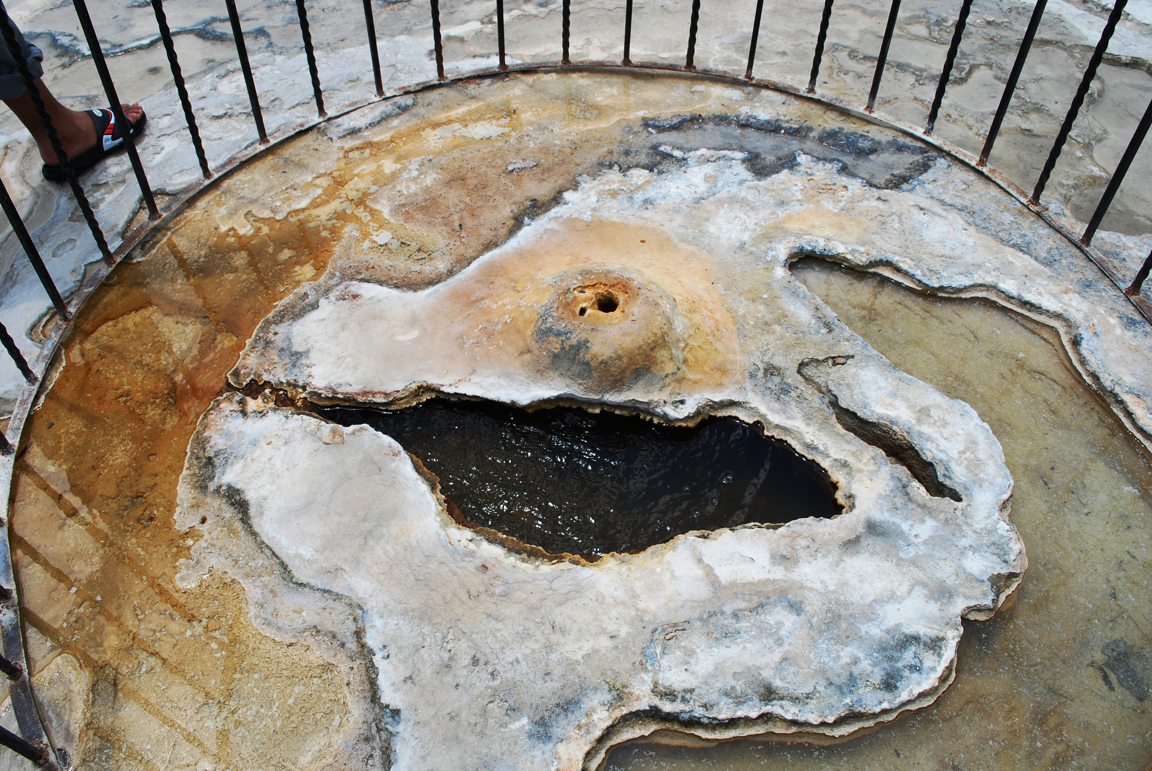 One of the sulfur springs at Hierve el Agua, Oaxaca, Mexico